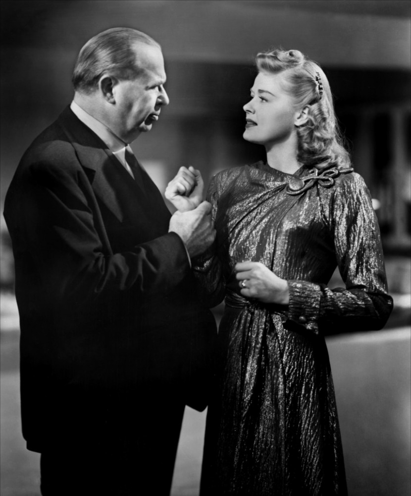 Charles Coburn and Helen Walker in Impact (1949) - cropped screenshot.